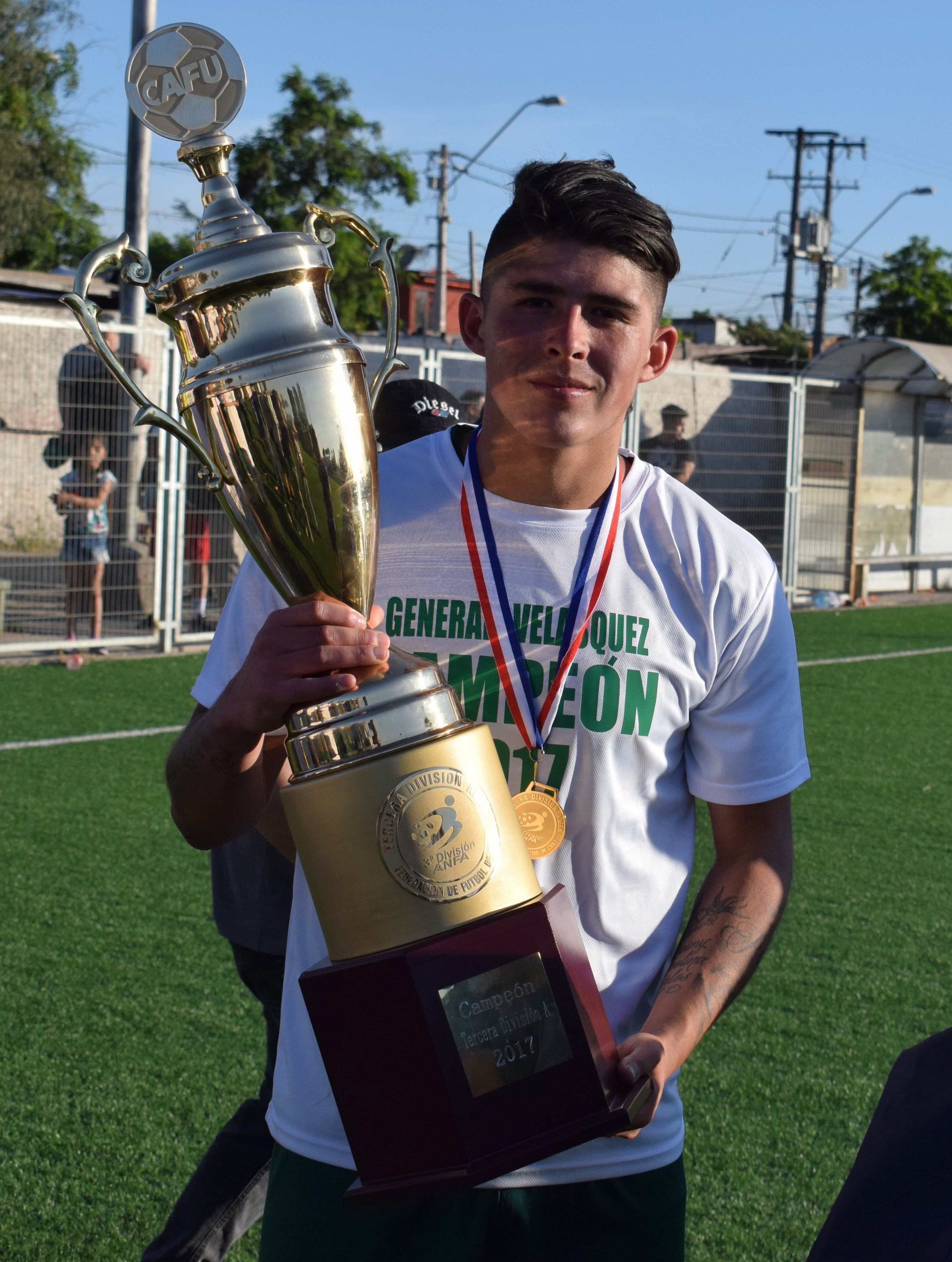 Carlos Sepúlveda champion in Chile